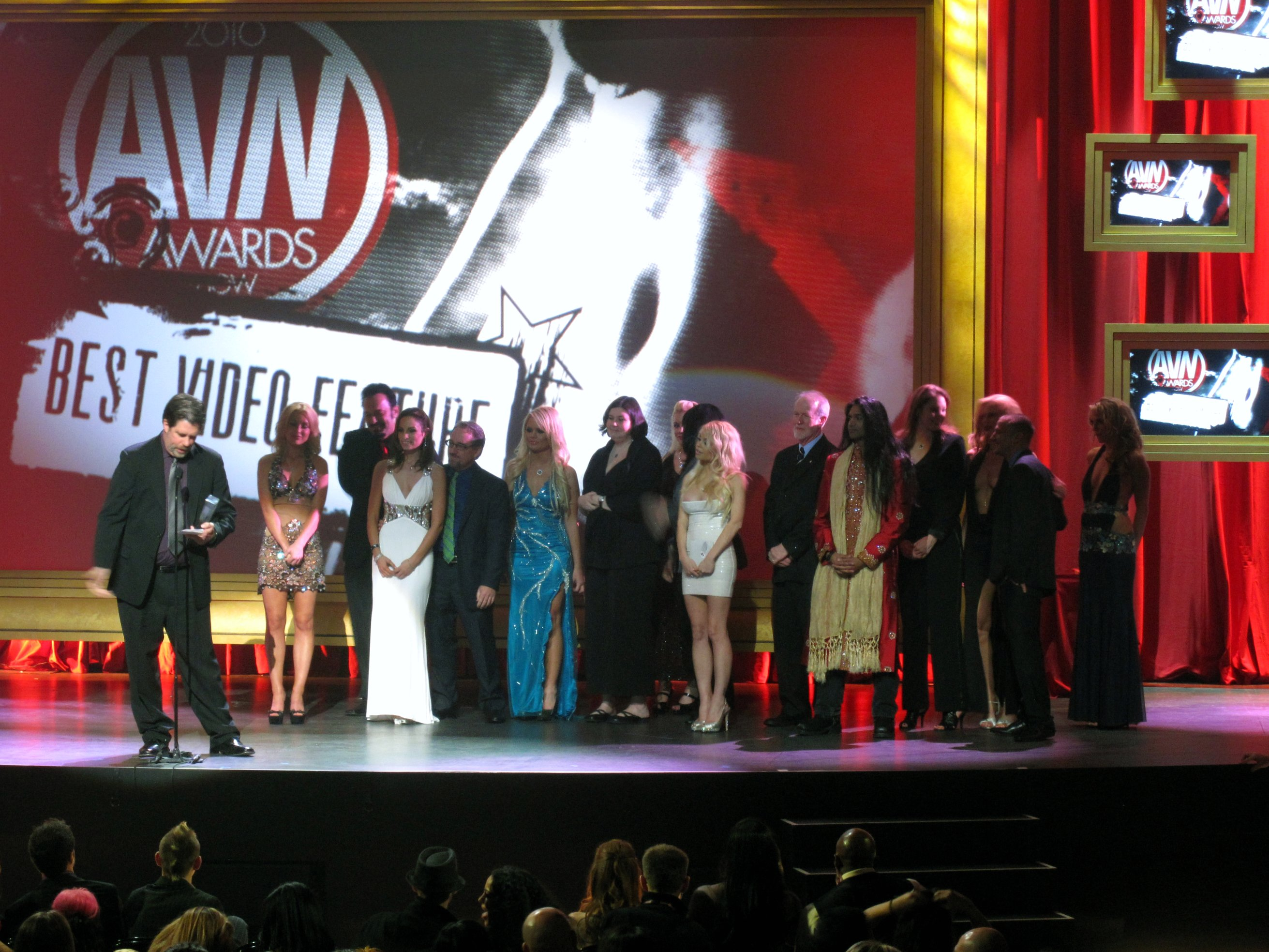 Adam & Eve Receiving Best Video Feature for The 8th Day at the 2010 AVN Awards.